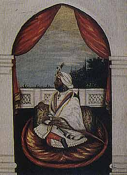 Sher Singh Attariwala